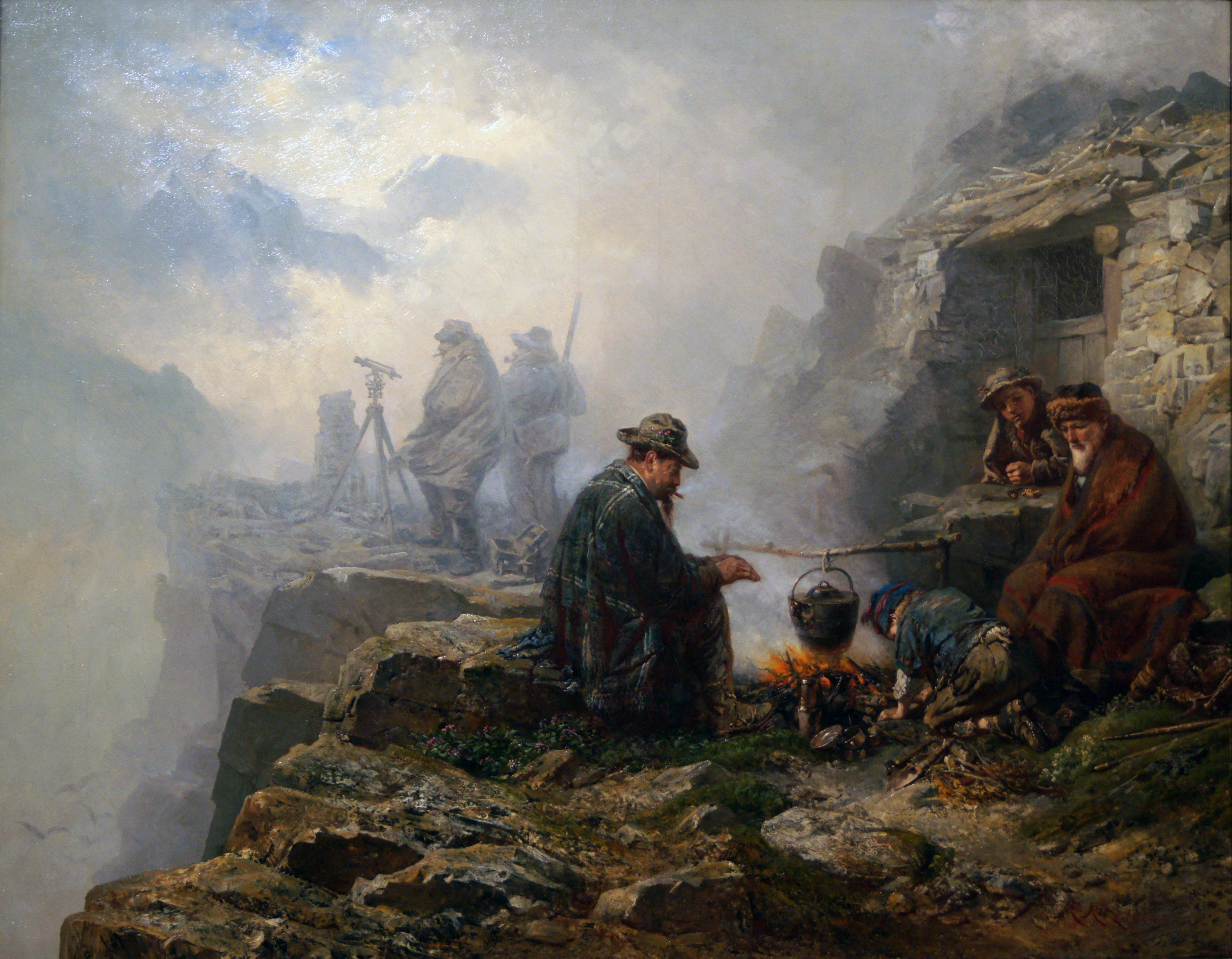 Engineers in the mountains, 1881, oil on canvas.